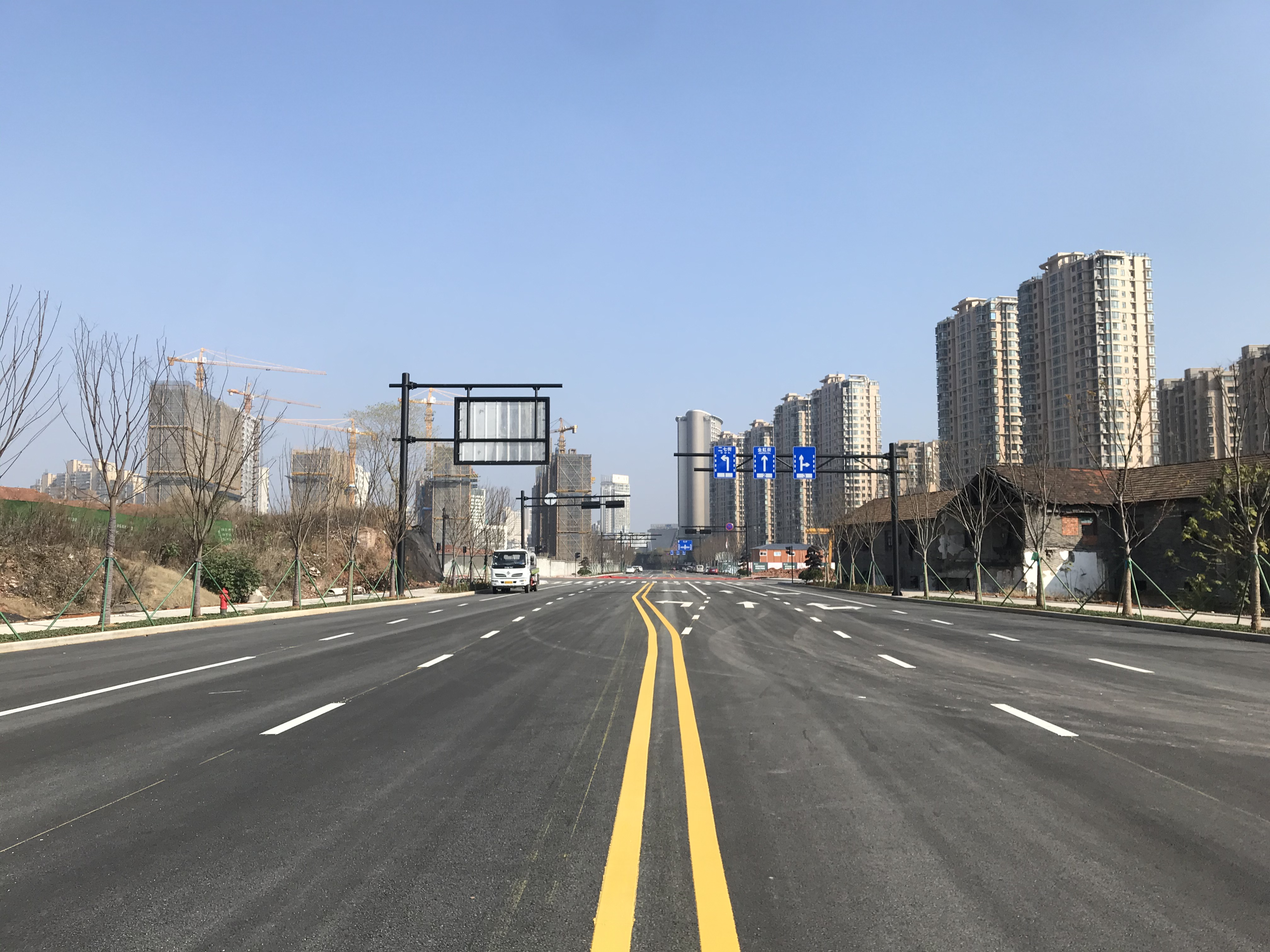 201912 Gongren Road after Reorganization